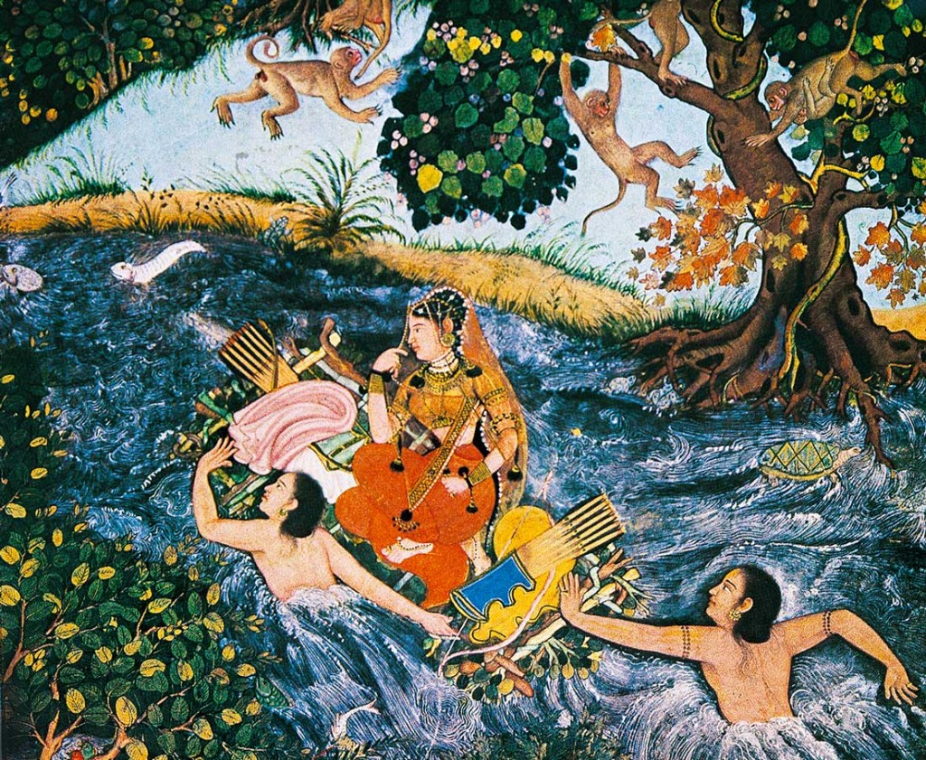 Ramayana